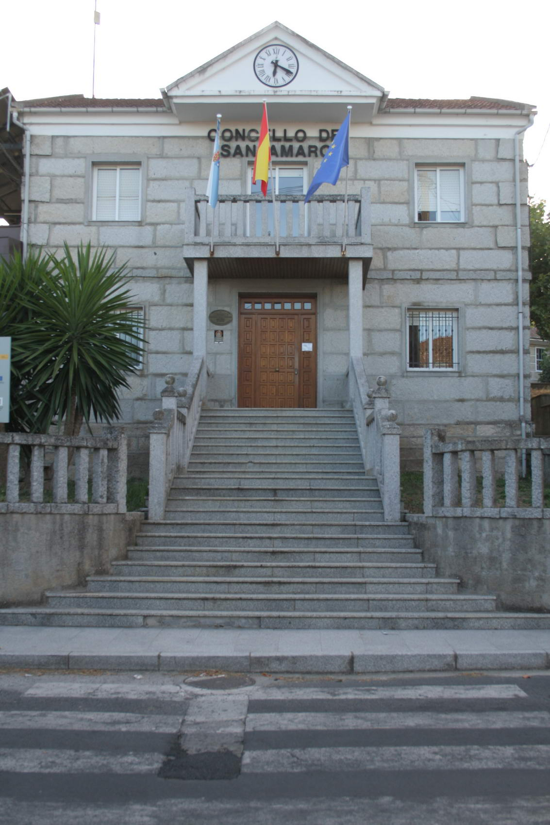 Town Hall in San Amaro (Spain)